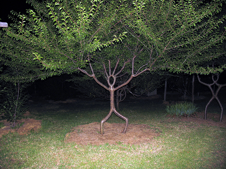 This photo was taken in summer of 2009 and the person tree was planted in 1998 Photo is from / with permission from Peter Cook and Becky Northey the owners.